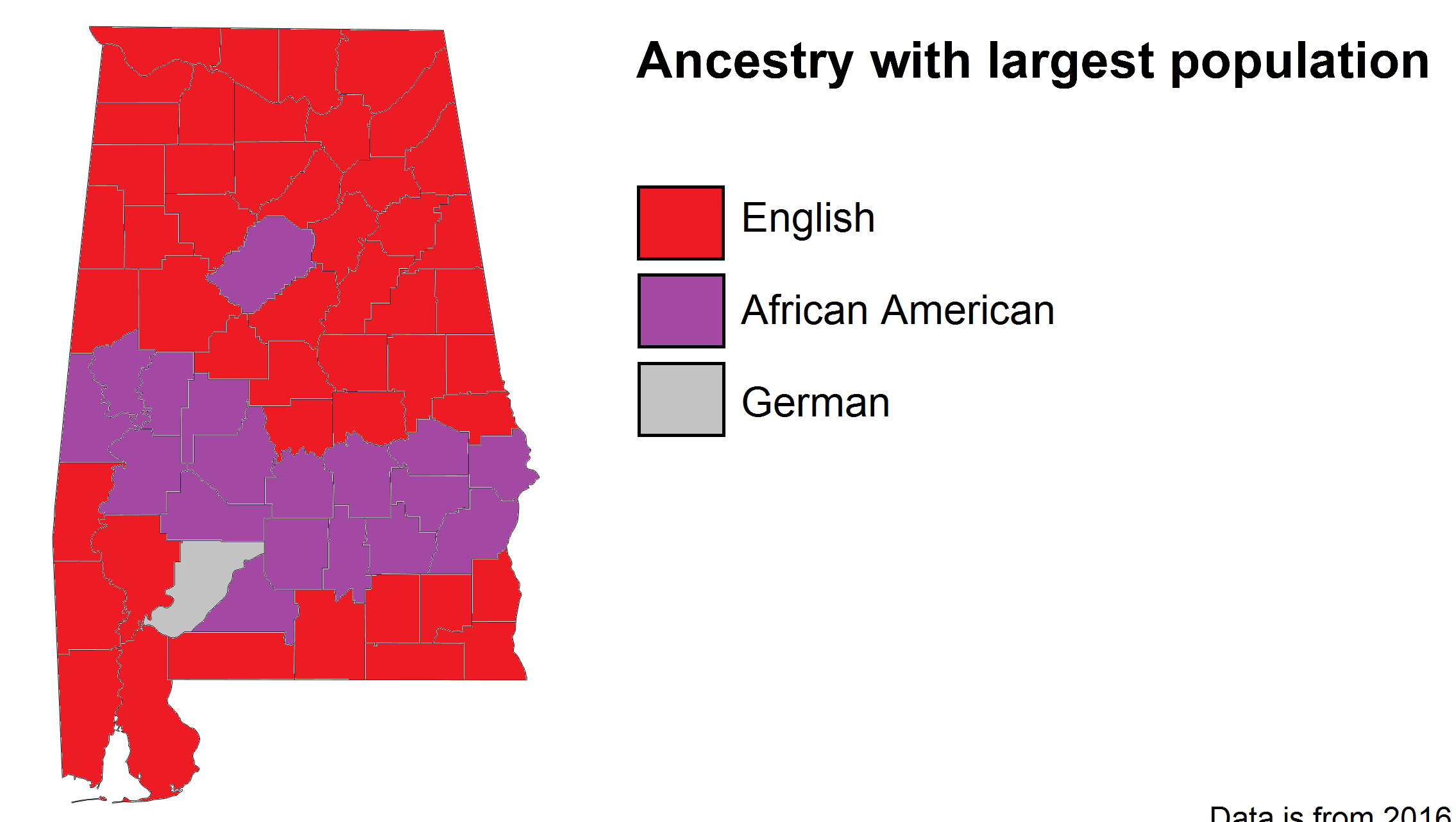 Largest self-identified ancestry groups in Alabama as of 2016. Represented by counties, map deals in both pluralities and majorities.